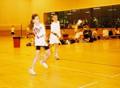 Taken with my own camera, main subject being my own daughter. Absolutely no copyright issues. Scottish Schools u12s, mixed doubles badminton tournament - Tranent, May 2002